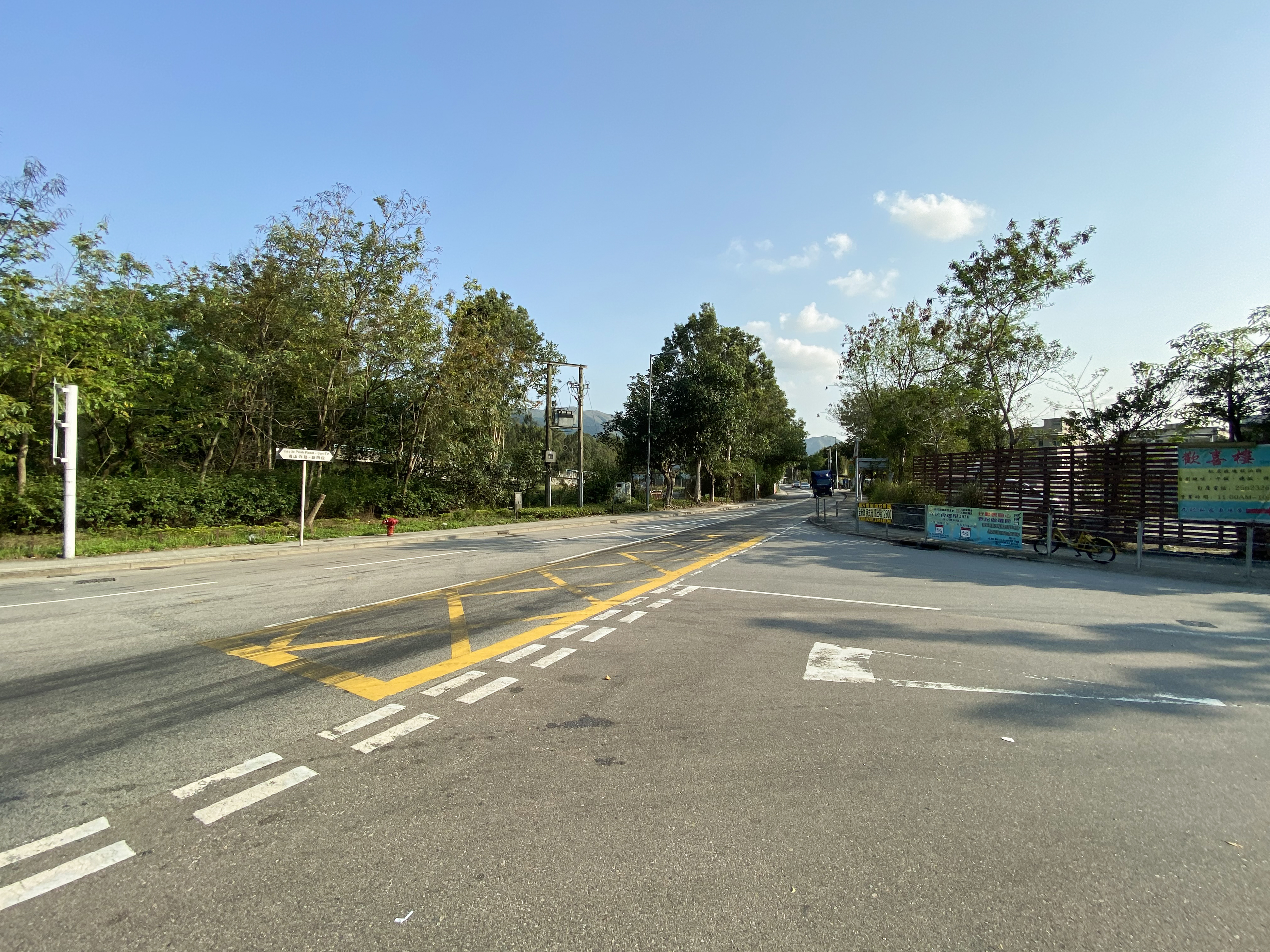 Castle Peak Road San Tin